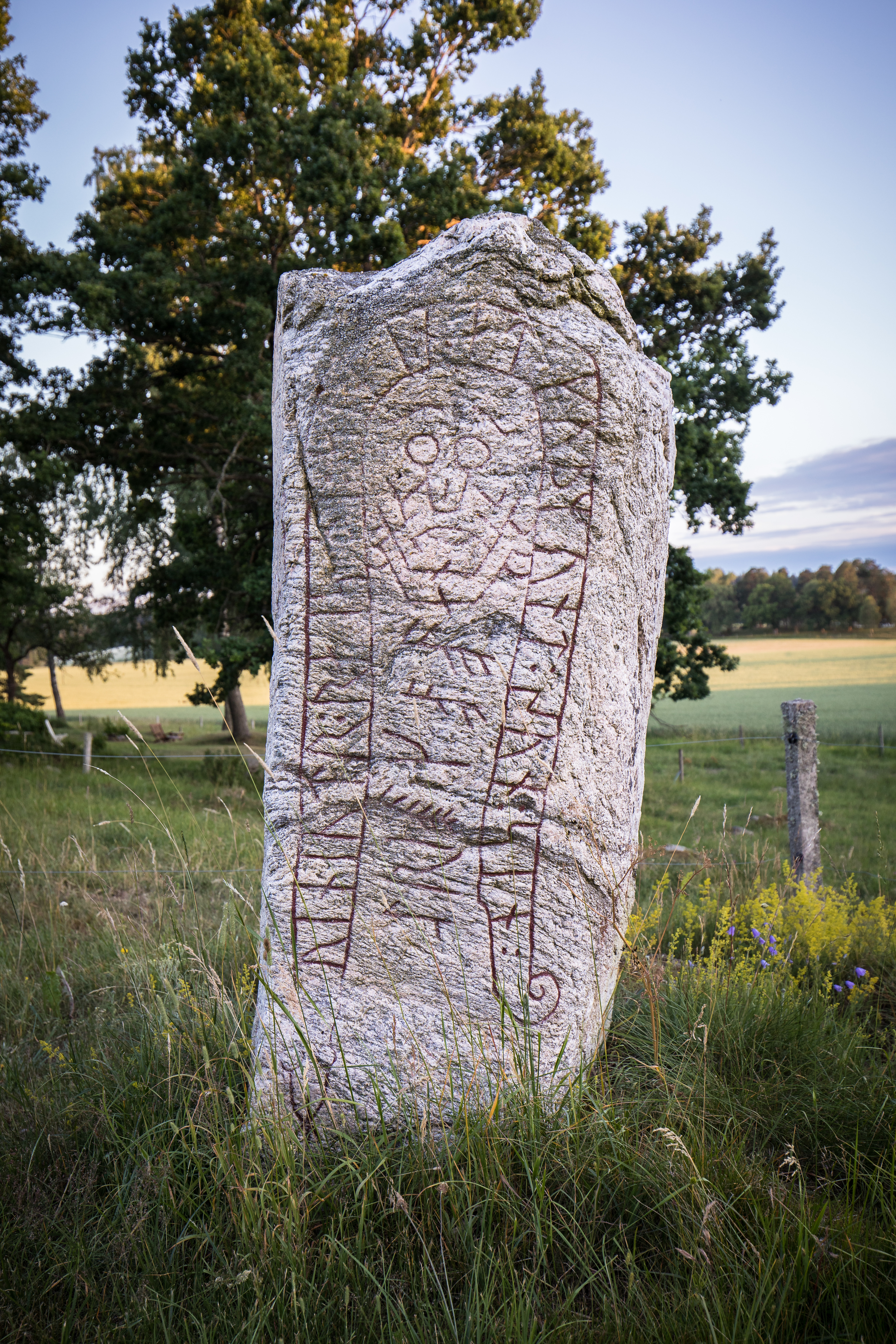 Runestone Sö 167, Landshammar, Sweden